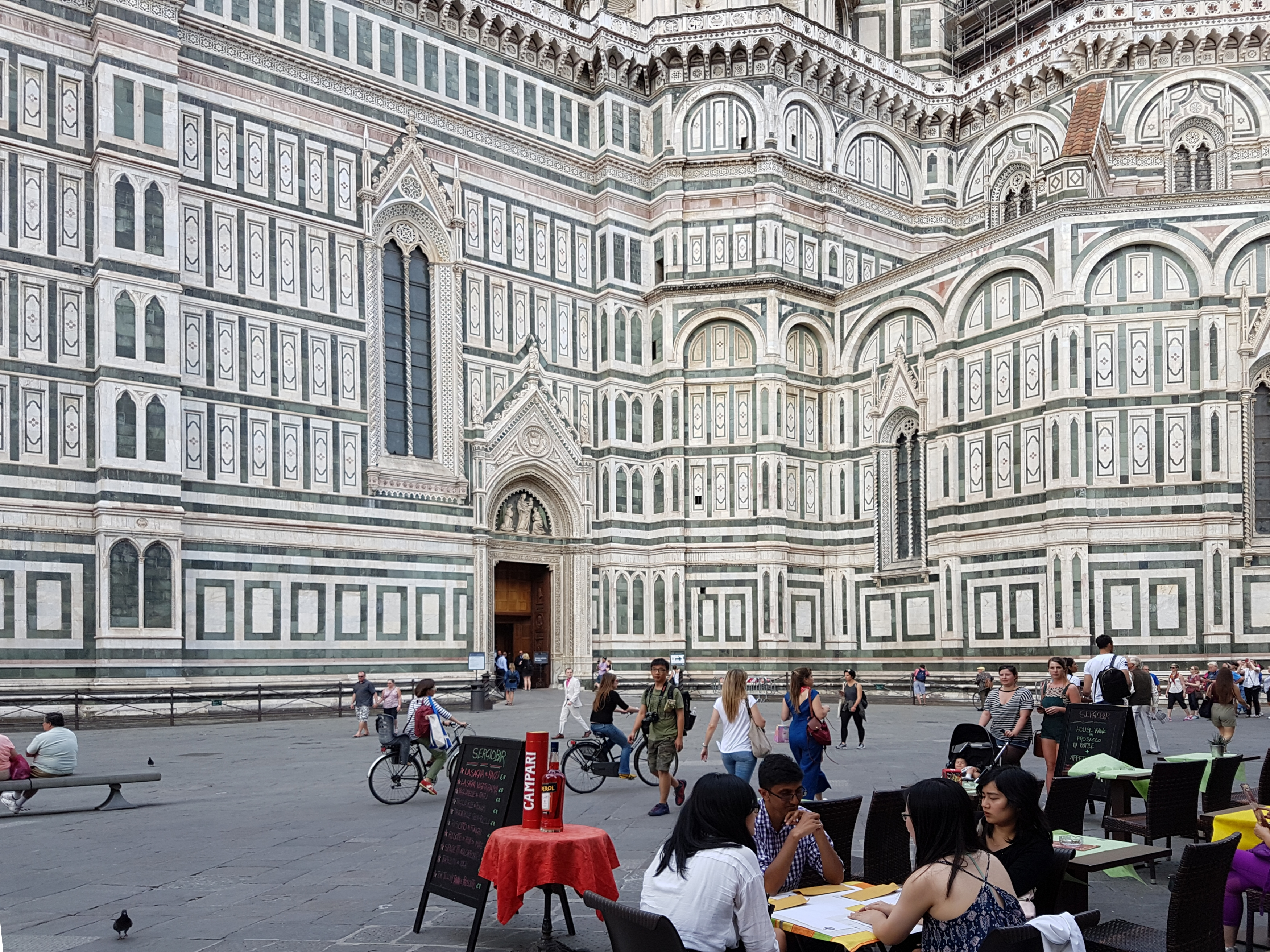 Restaurant in the Piazza del Duomo